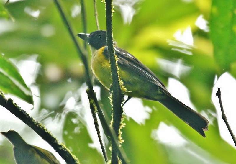 White-throated Shrike-tanager ('Lanio leucothorax). A male at Quebrada Gonzalez Station, Parque Nacional Brauilio Carillo, Costa Rica.